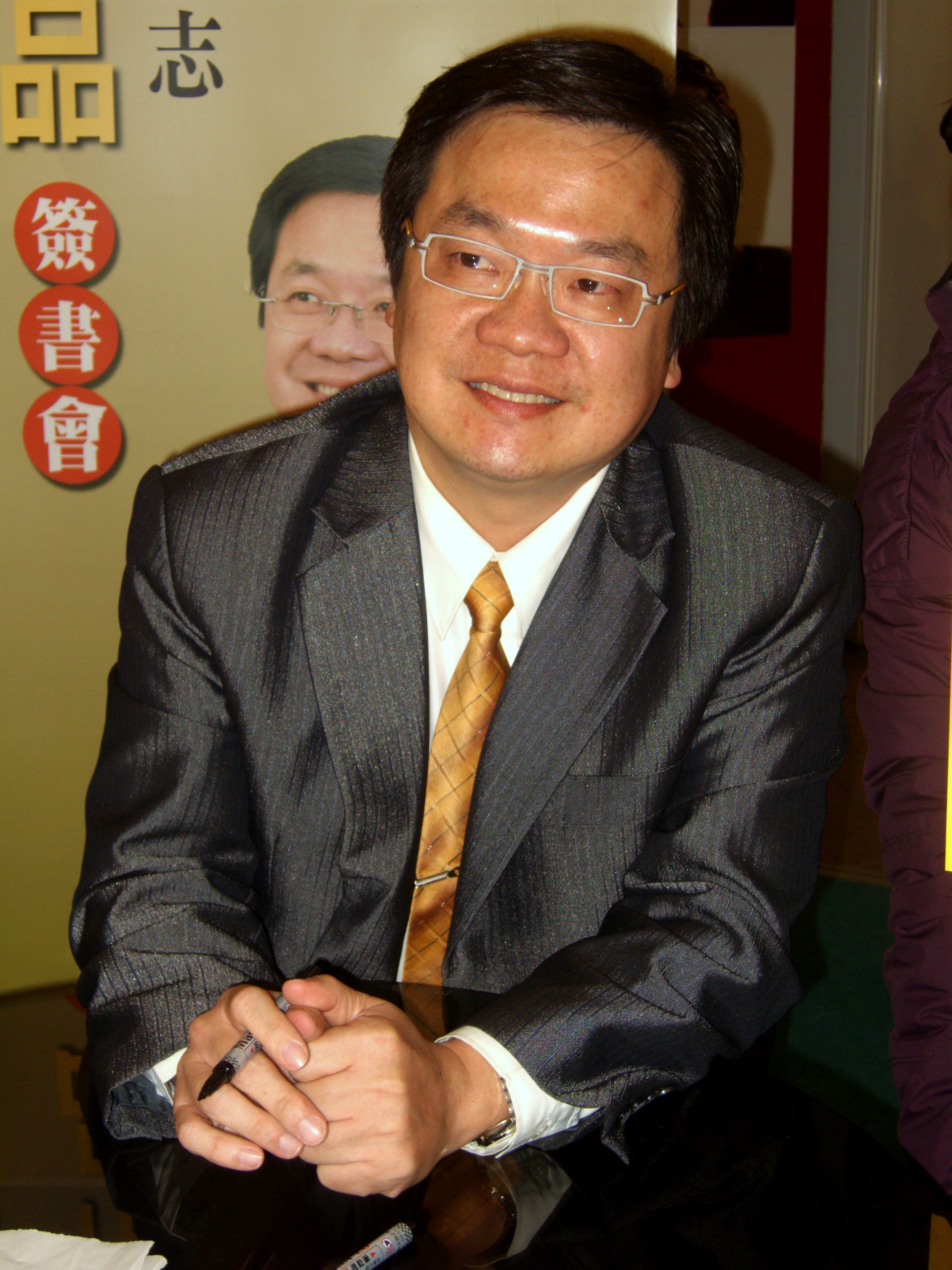 2008 Taipei International Book Exhibition: Cheng-chi Dai, an author from Taiwan, at China Times Publishing.中文（台灣）: 2008年臺北國際書展，臺灣作家戴晨志在時報文化攤位舉辦簽書會。